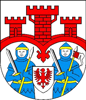 coat of arms of the German city of Friedland (Mecklenburg),.